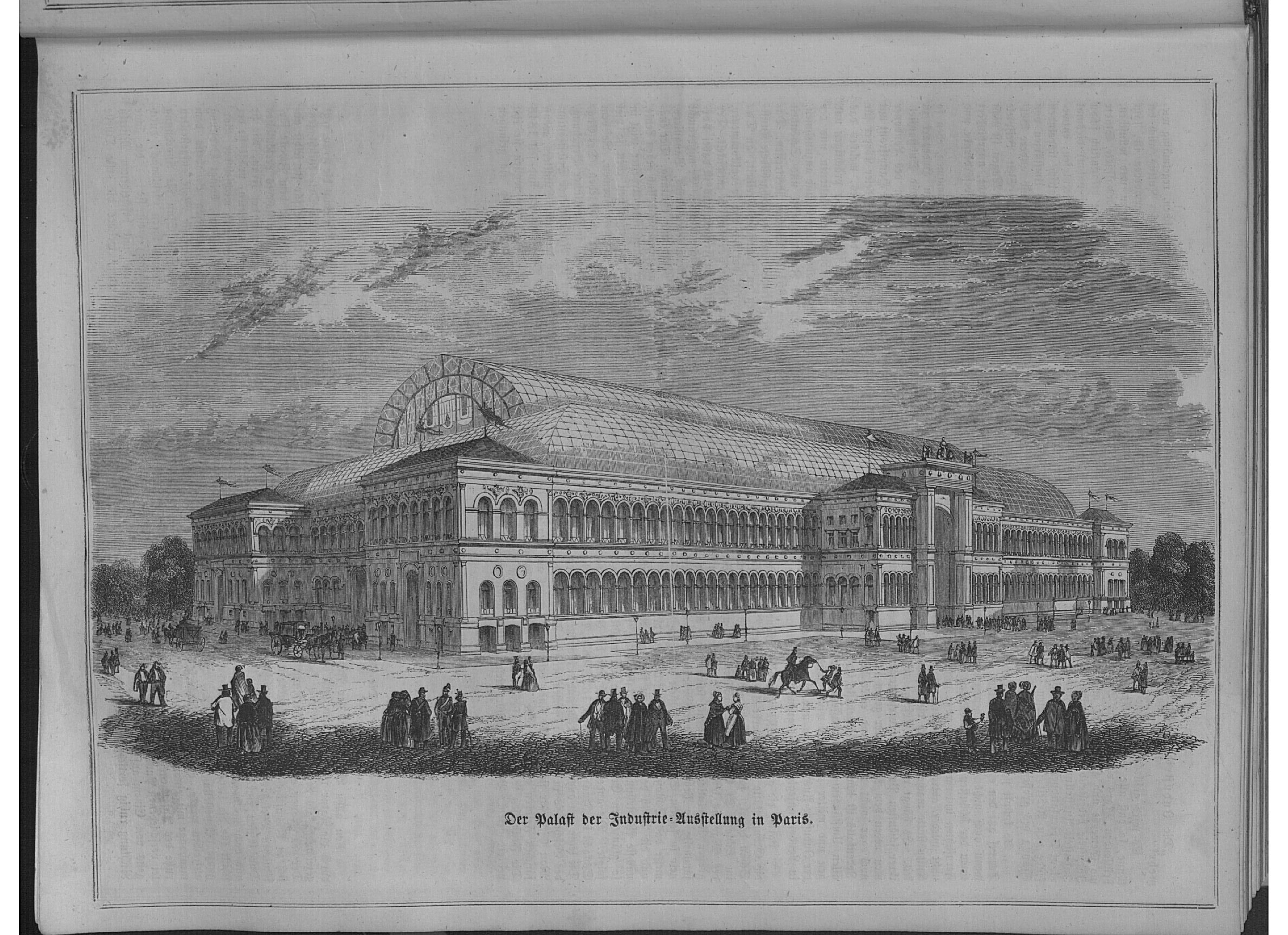 Page 181 from journal Die Gartenlaube Extracted image (if any): File:Die Gartenlaube (1855) b 181.jpg - hi res, ~2.5 MB.